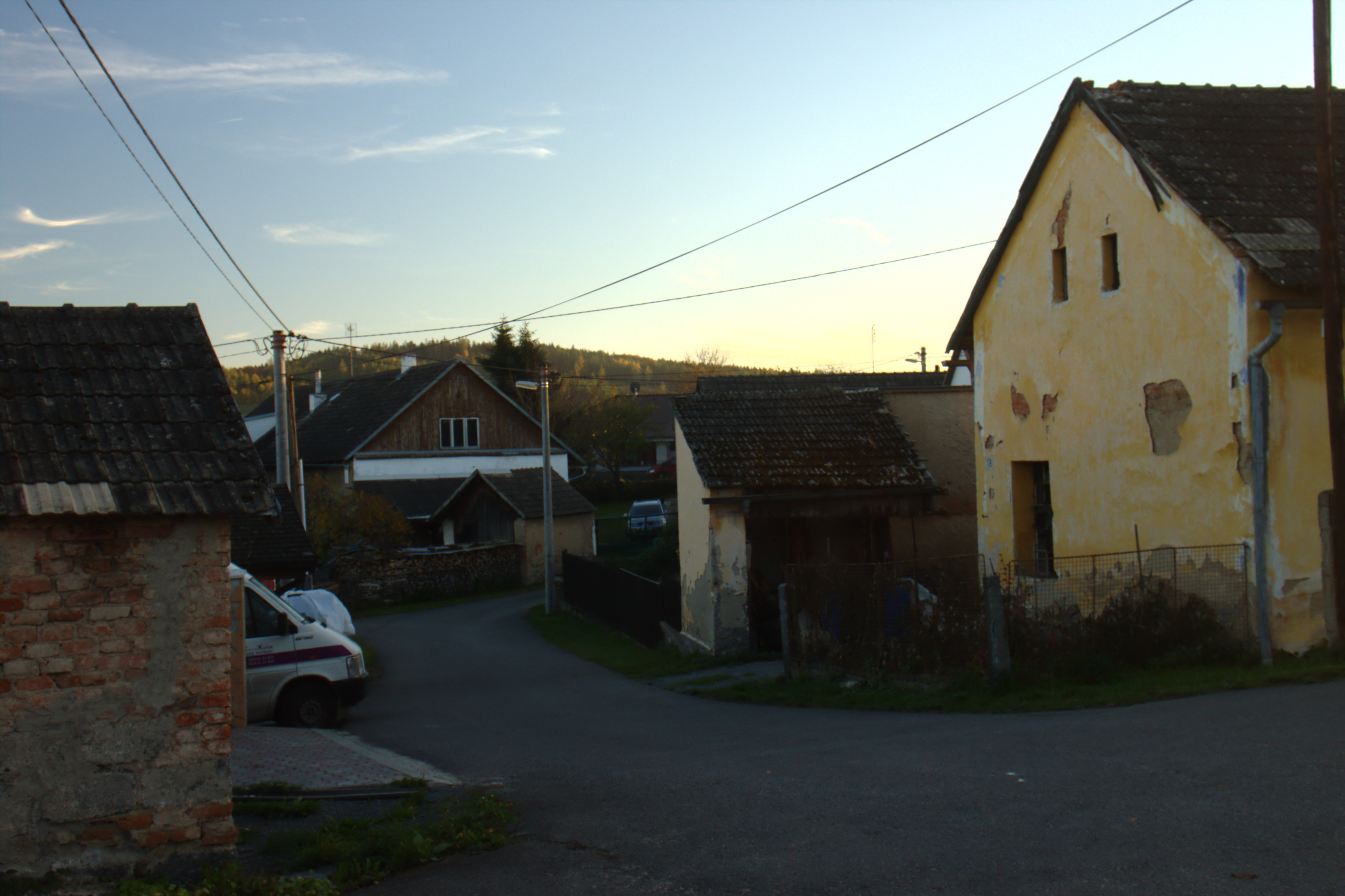 A common in the village of Nedrahovické Podhájí, Central Bohemia, CZ